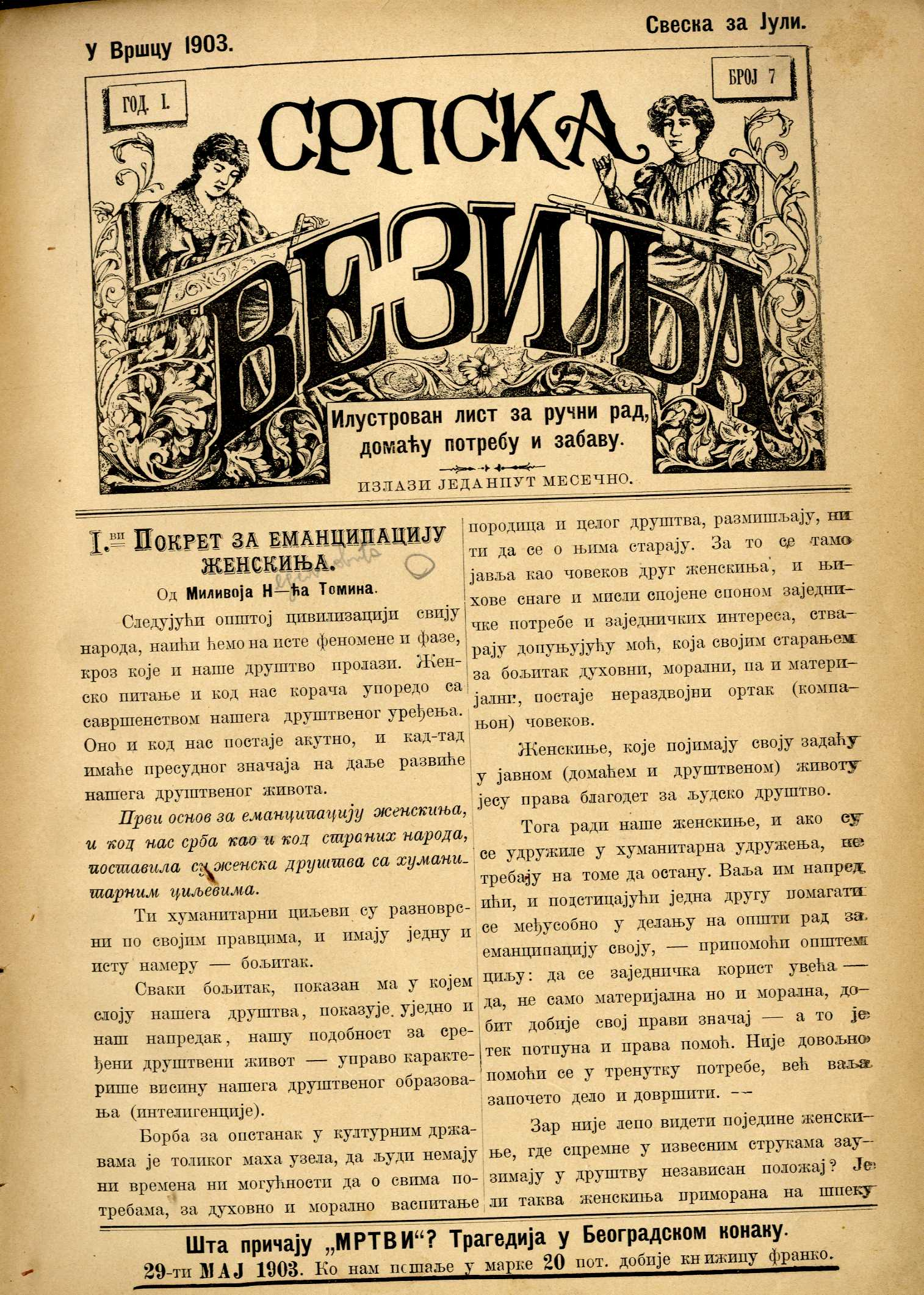 Cover page Magazine Srpska vezilja, number 7, 1903.